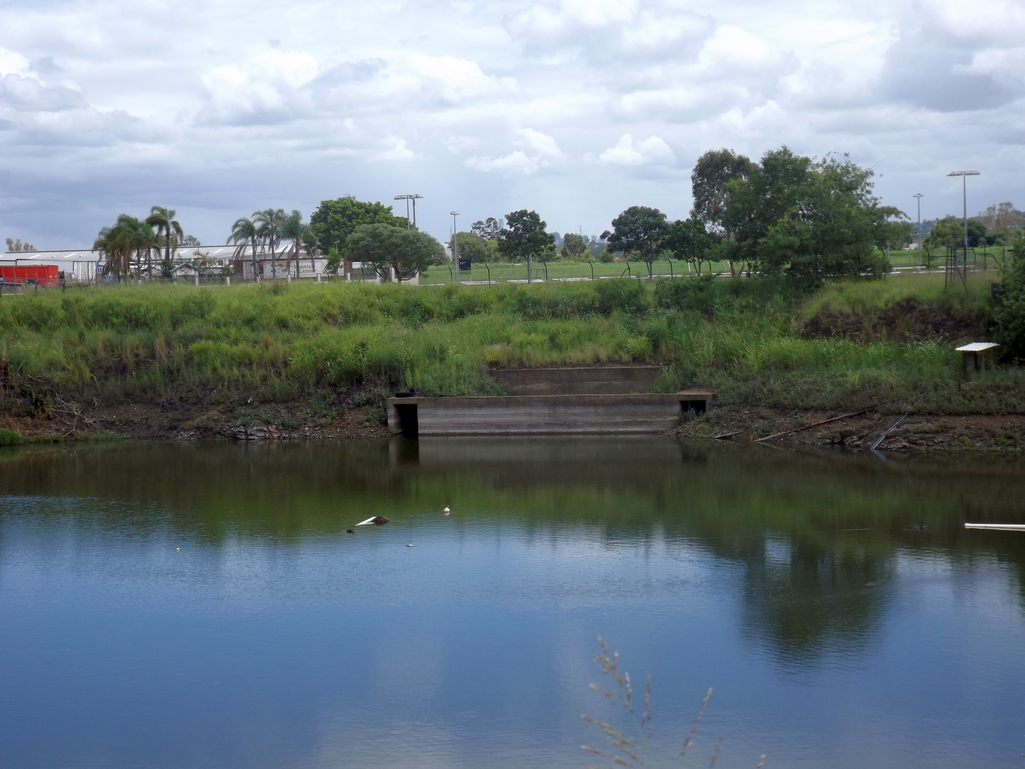 Photo of partially submerged Air Raid Shelter at Acacia Ridge, Brisbane, Queensland, Australia.